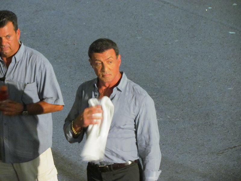 Sylvester Stallone on set of "Headshot"